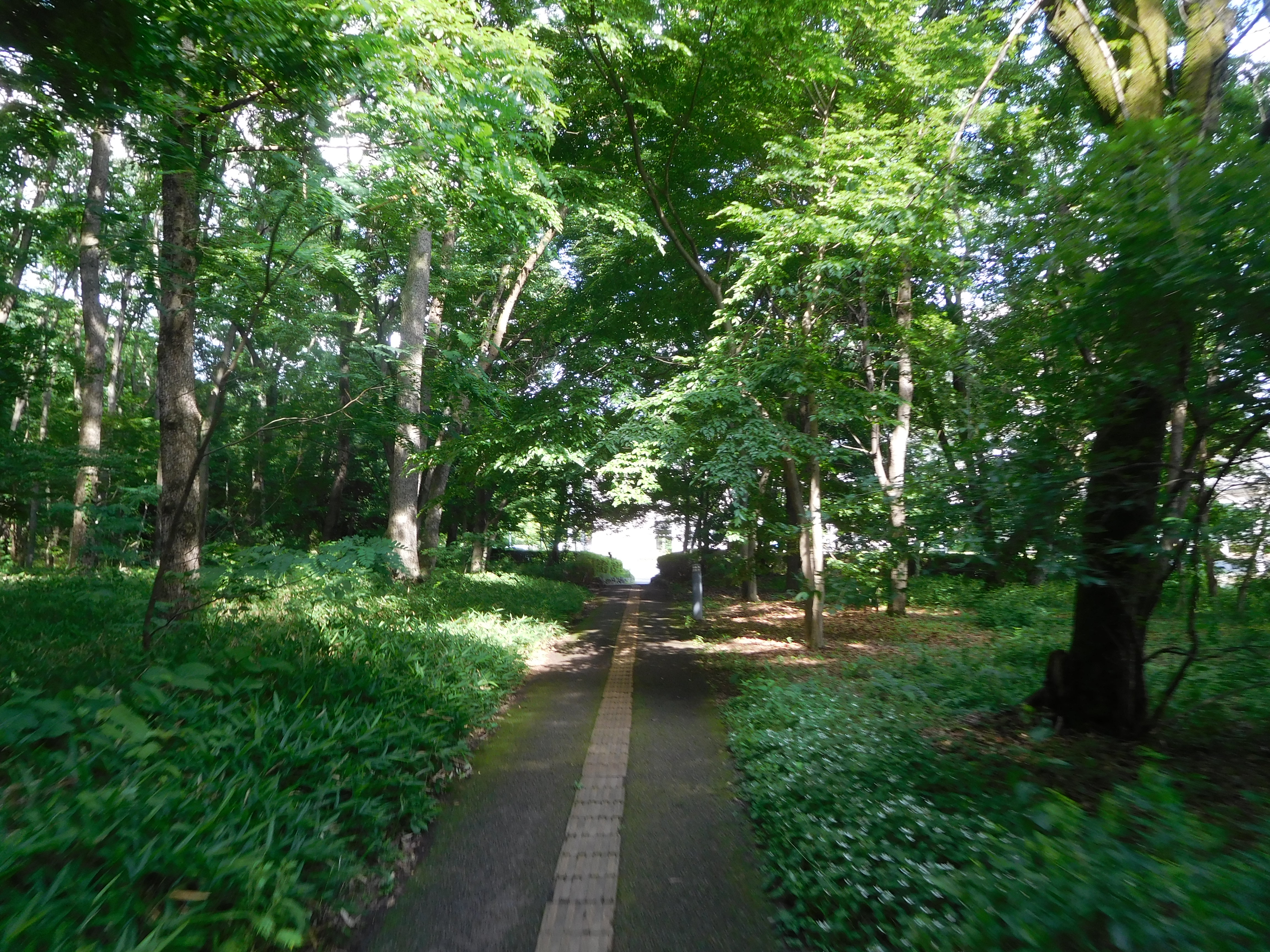 This is Tochigi Forest of Health (Tochigi Kenko no Mori) in Utsunomiya, Tochigi, Japan.